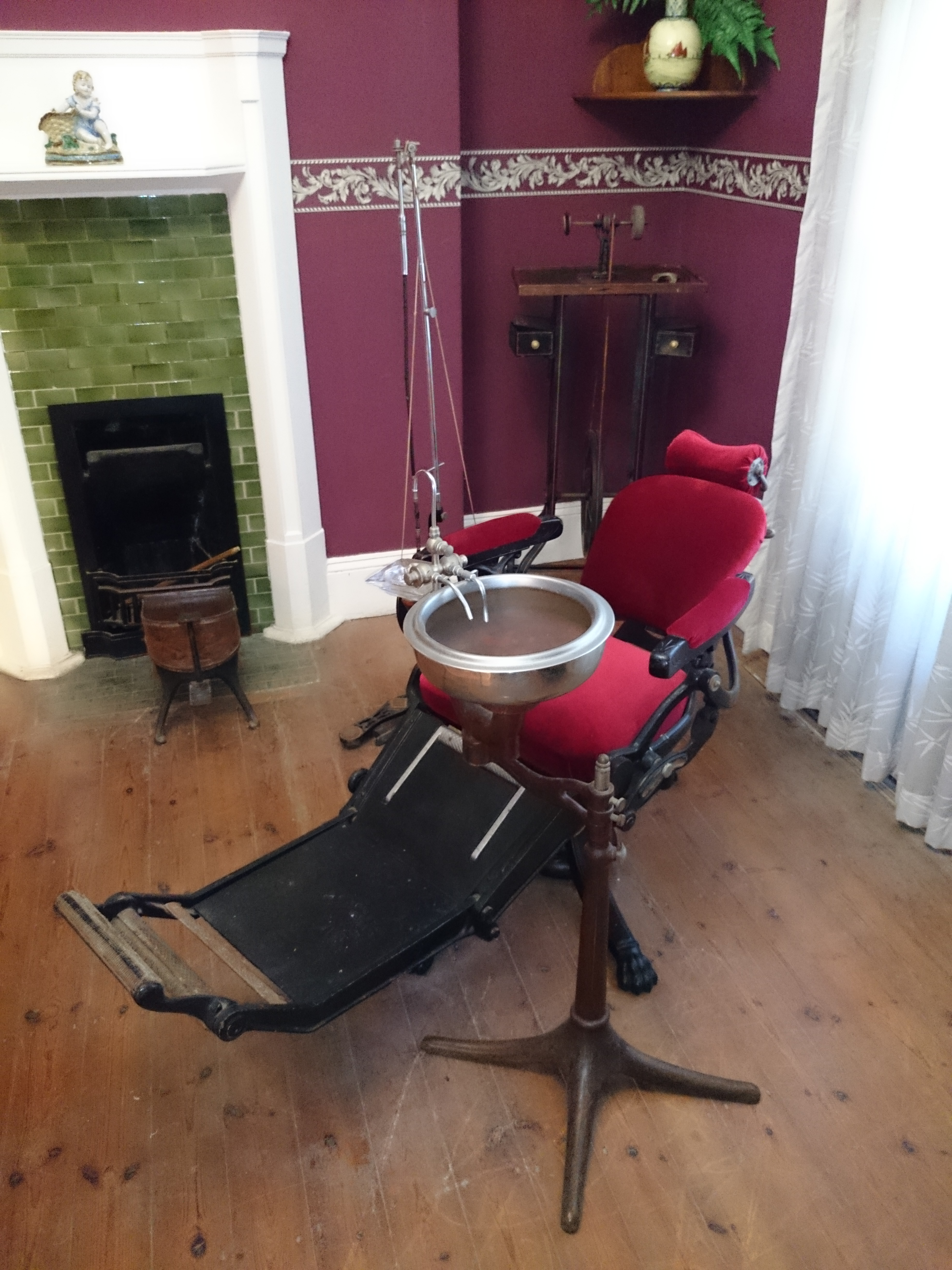 Patients lay on this chair to be operated on